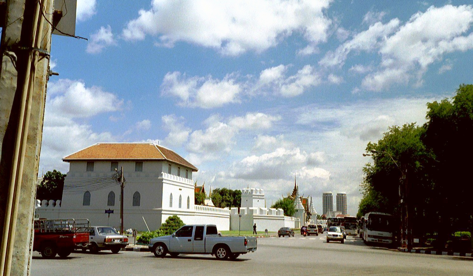 Sanam Chai Road at Grand Palace, Phra Nakhon district, Bangkok, thailand